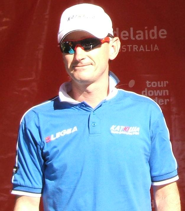 Named cyclist at the en:2009 Tour Down Under team presentation